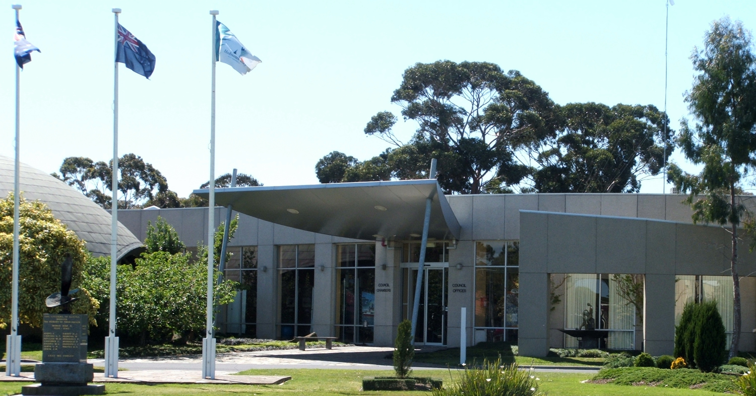 Council chambers (offices) of City of Hobsons Bay, Victoria, Australia. In suburb of Altona on Civic Parade.